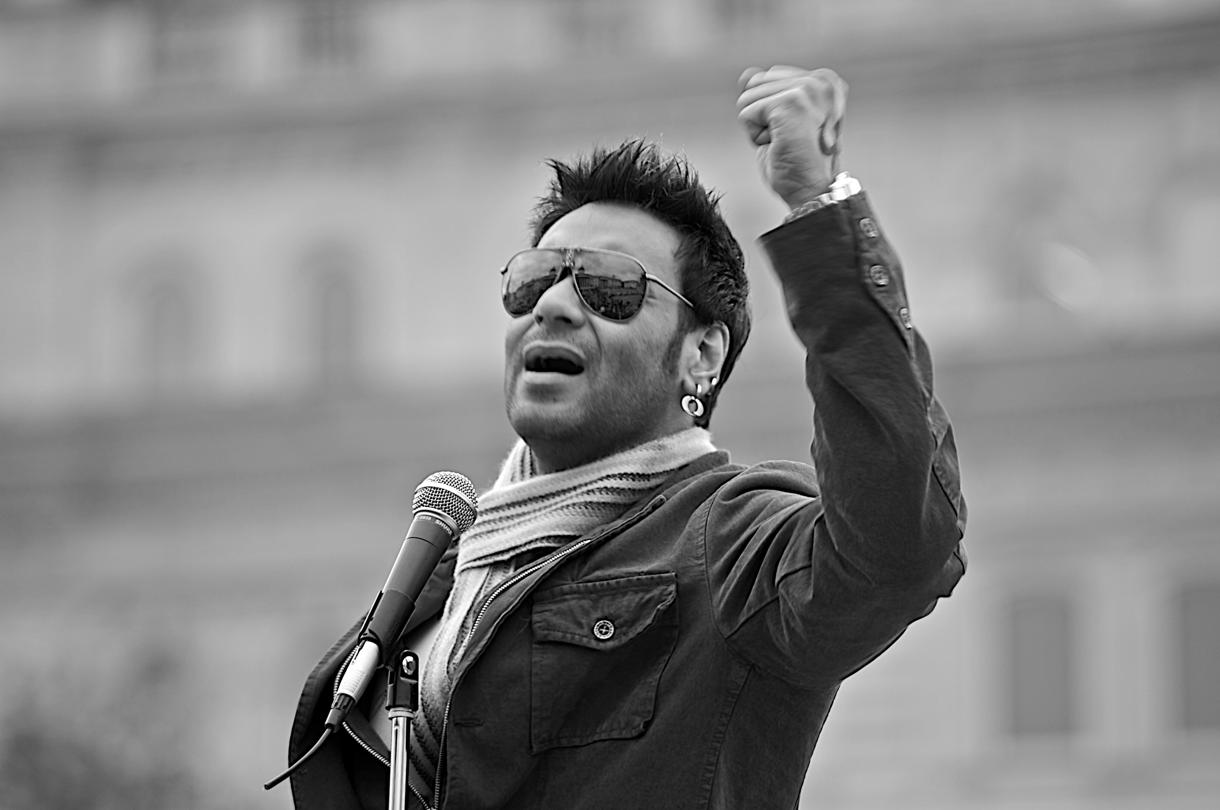 Ajay Devgan on Bollywood film London Dreams